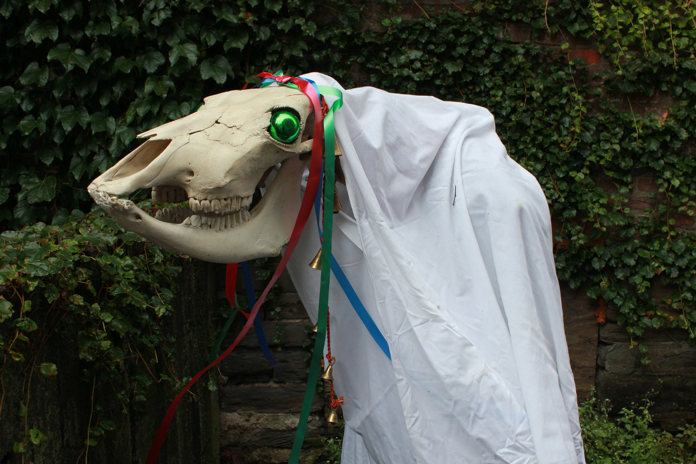 A photo of a Mari Lwyd, from the Welsh tradition.